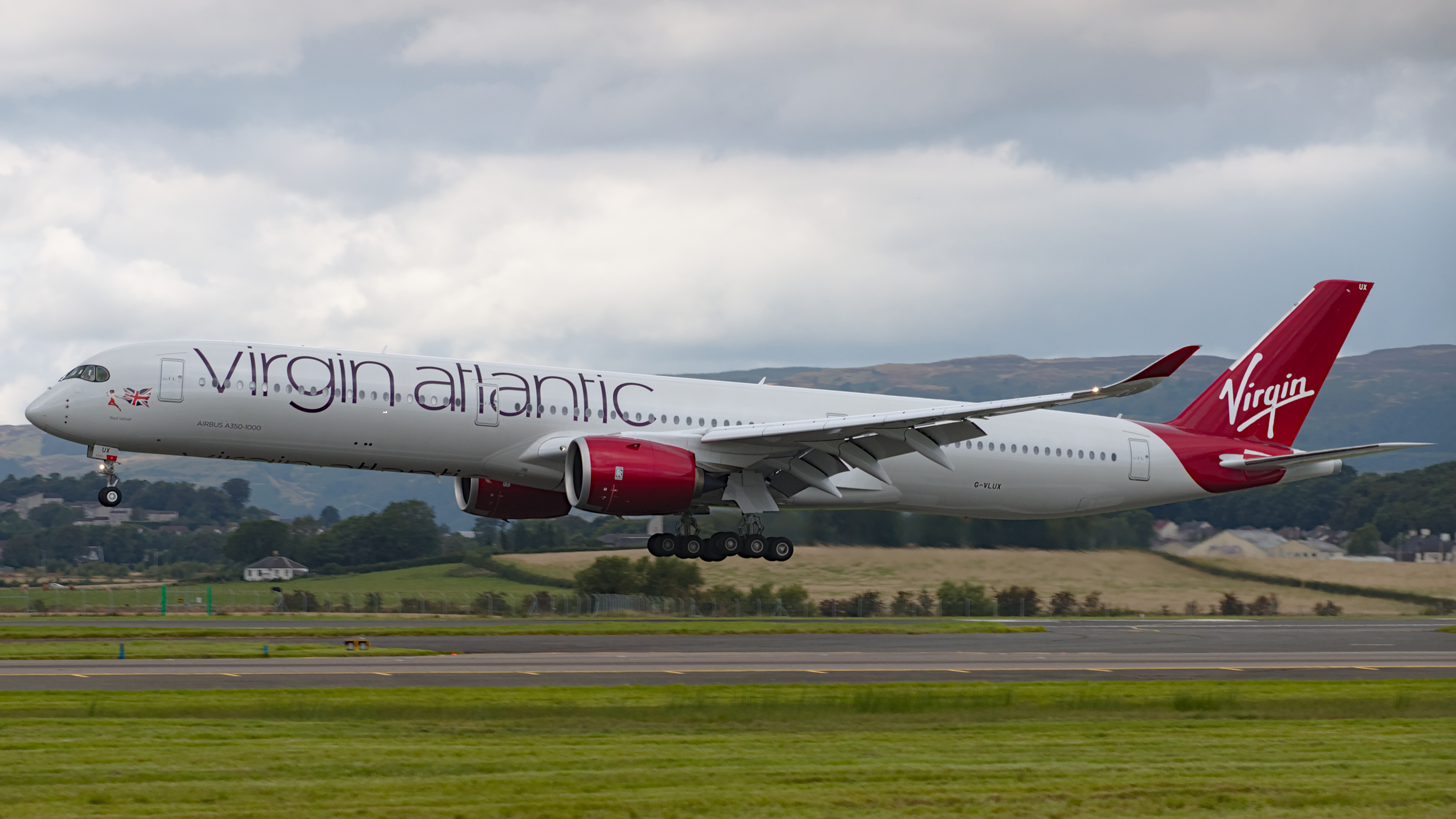 Airbus A350-1000 G-VLUX landing on runway 23 at Glasgow airport